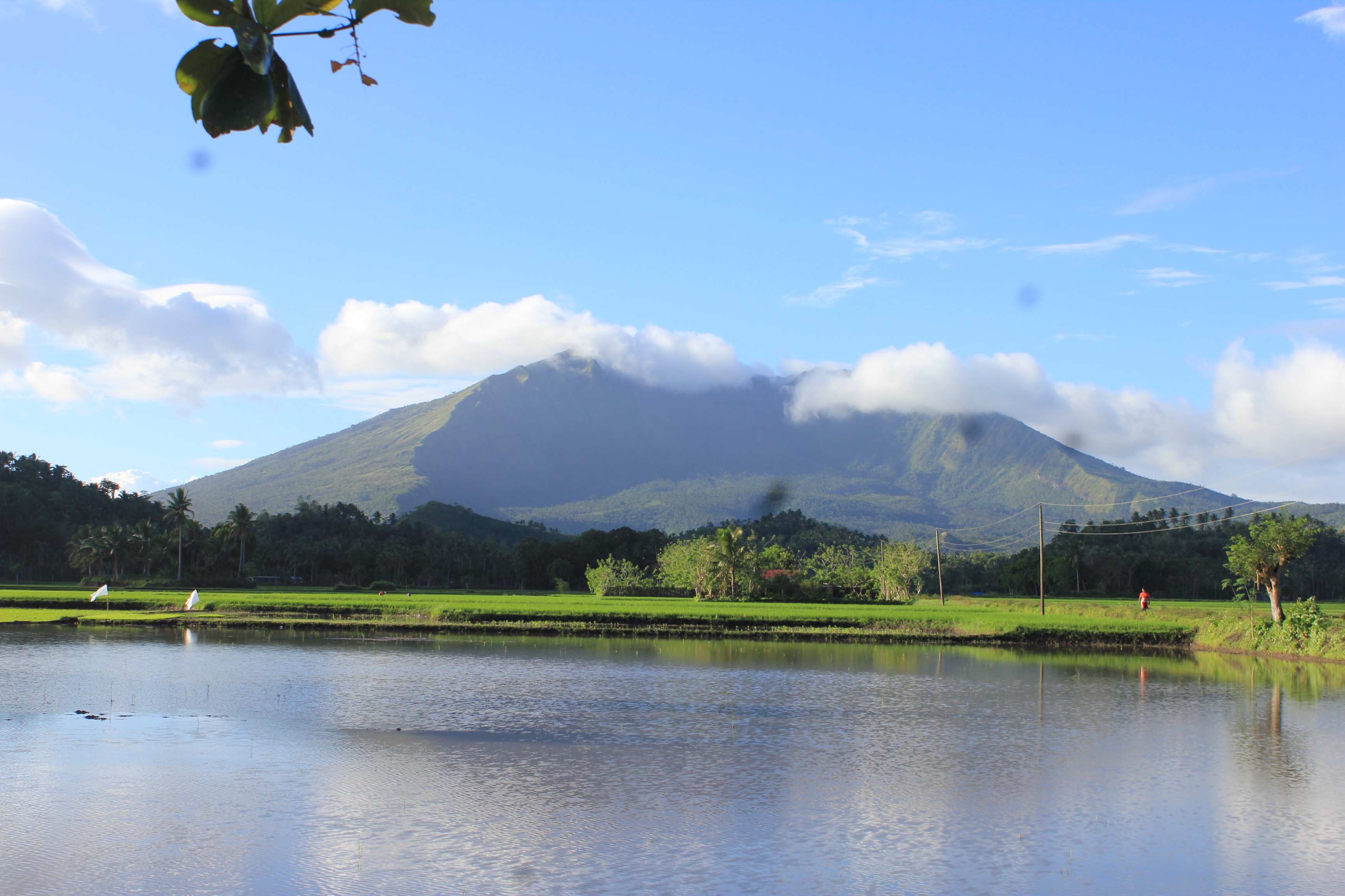 Mt. Asog seen at Buhi Cam Sur